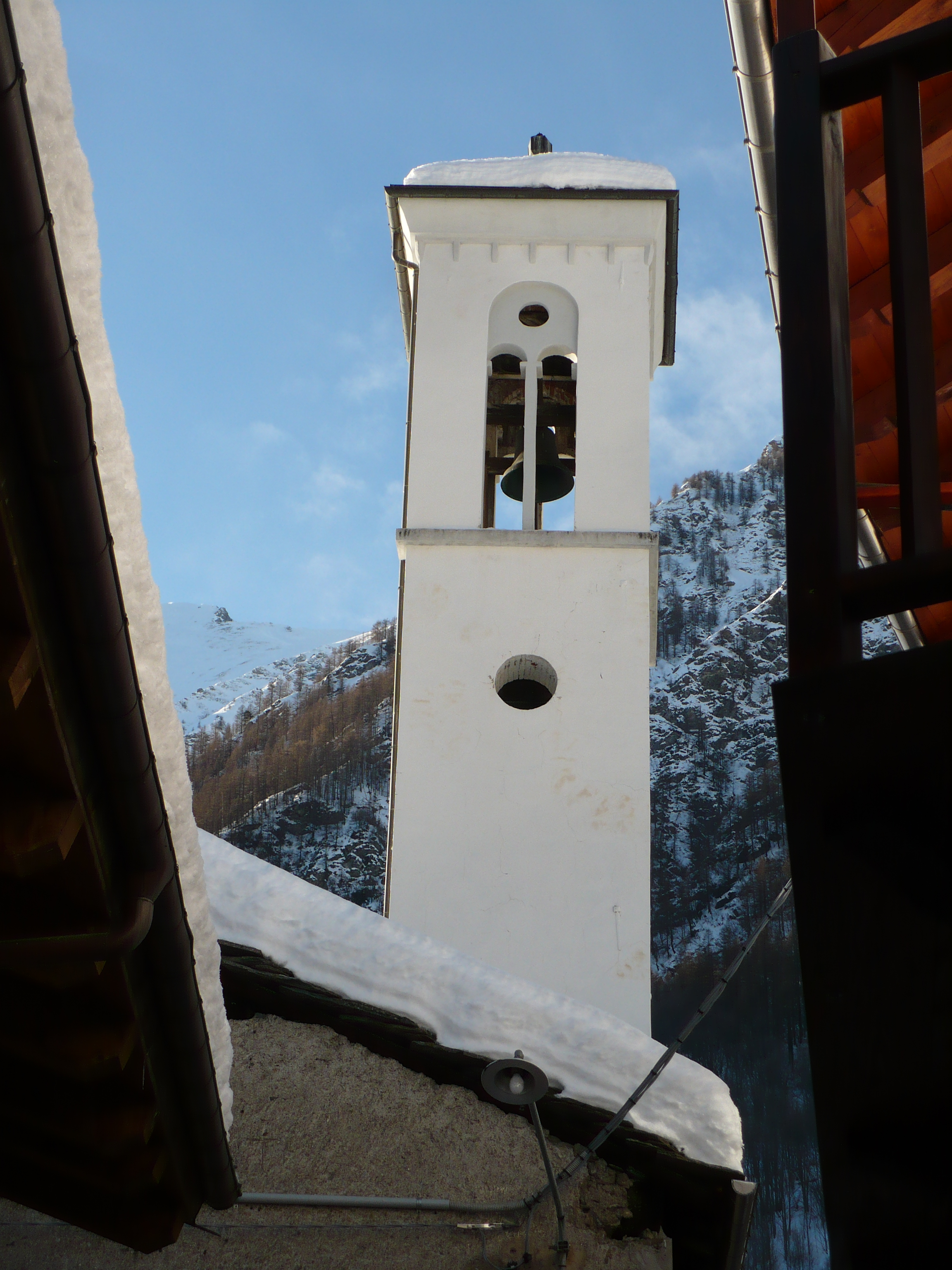 Ghigo di Prali - Waldensian Church - Val Germanasca - Province of Turin - Piedmont - Italy